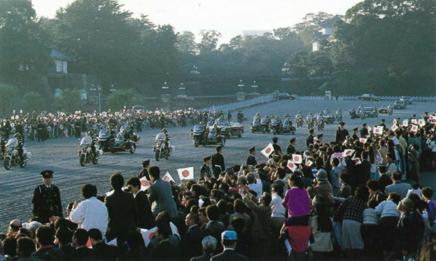 Procession to show the new Emperor to the people after the Enthronement Ceremony and to receive their good wishes.